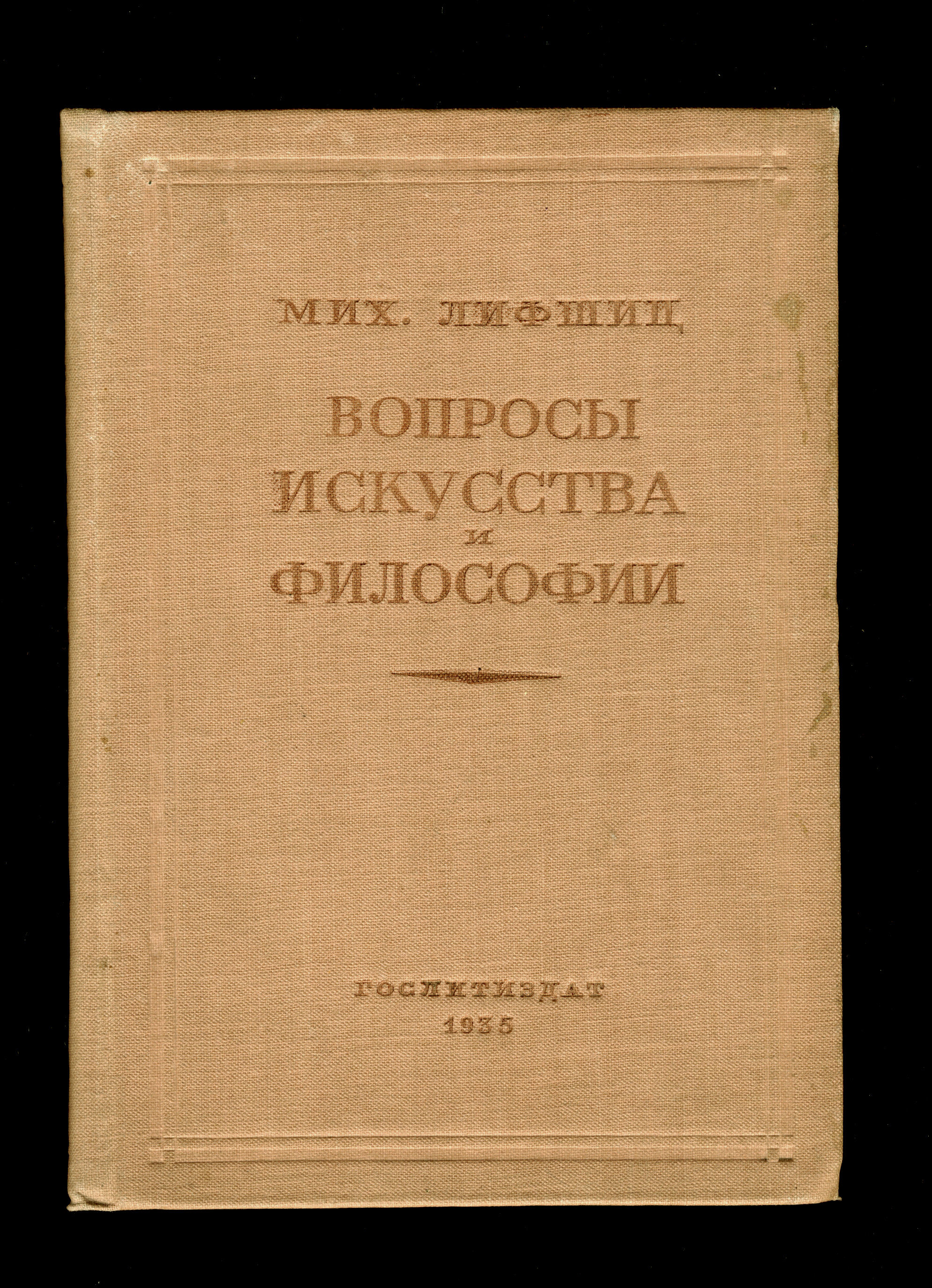 Lifshitz-Vopr_iskusstva-1935.